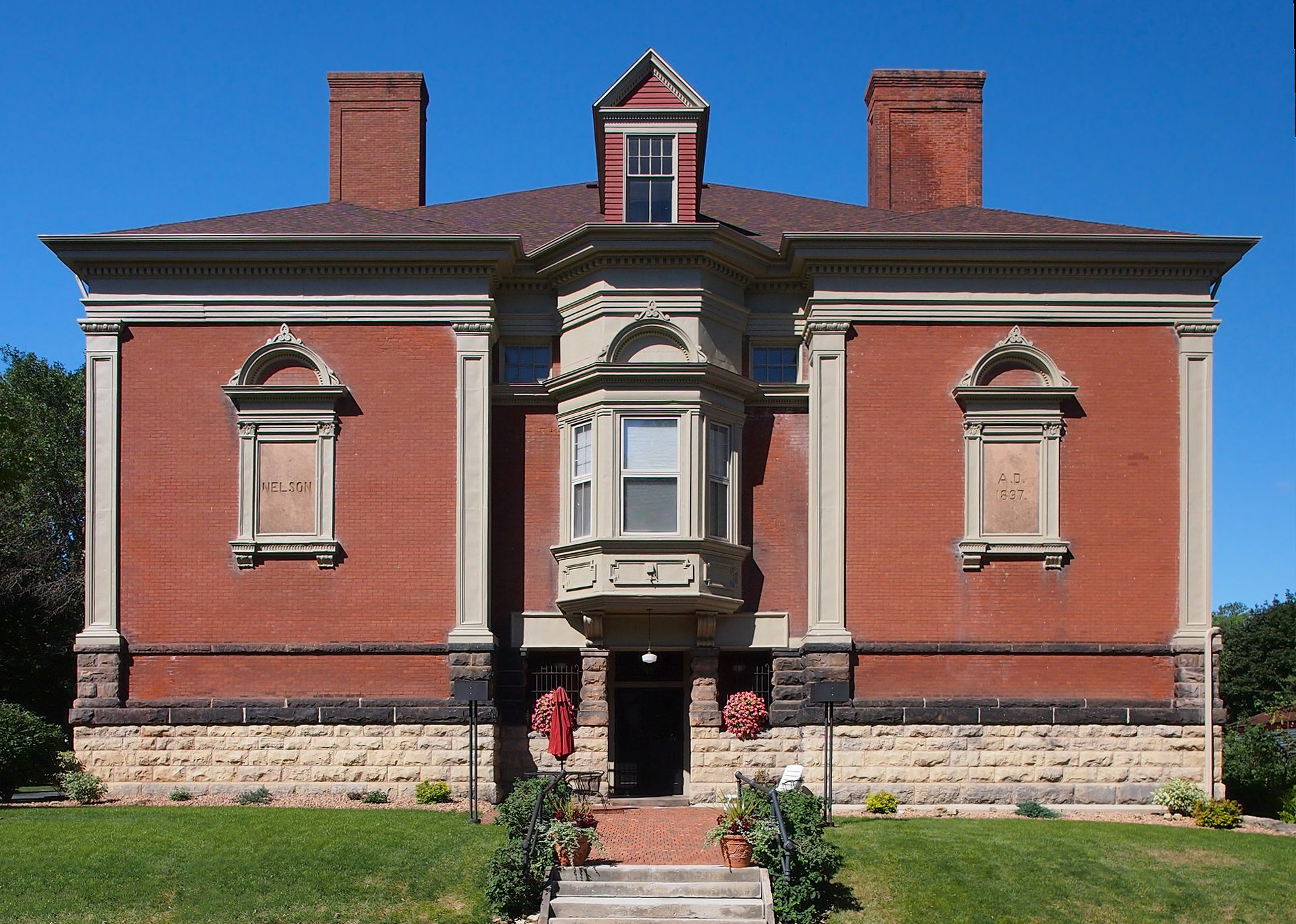 View from the east of historic Nelson School (now Nelson Townhomes), 1018 South First Street, Stillwater, Minnesota, United States